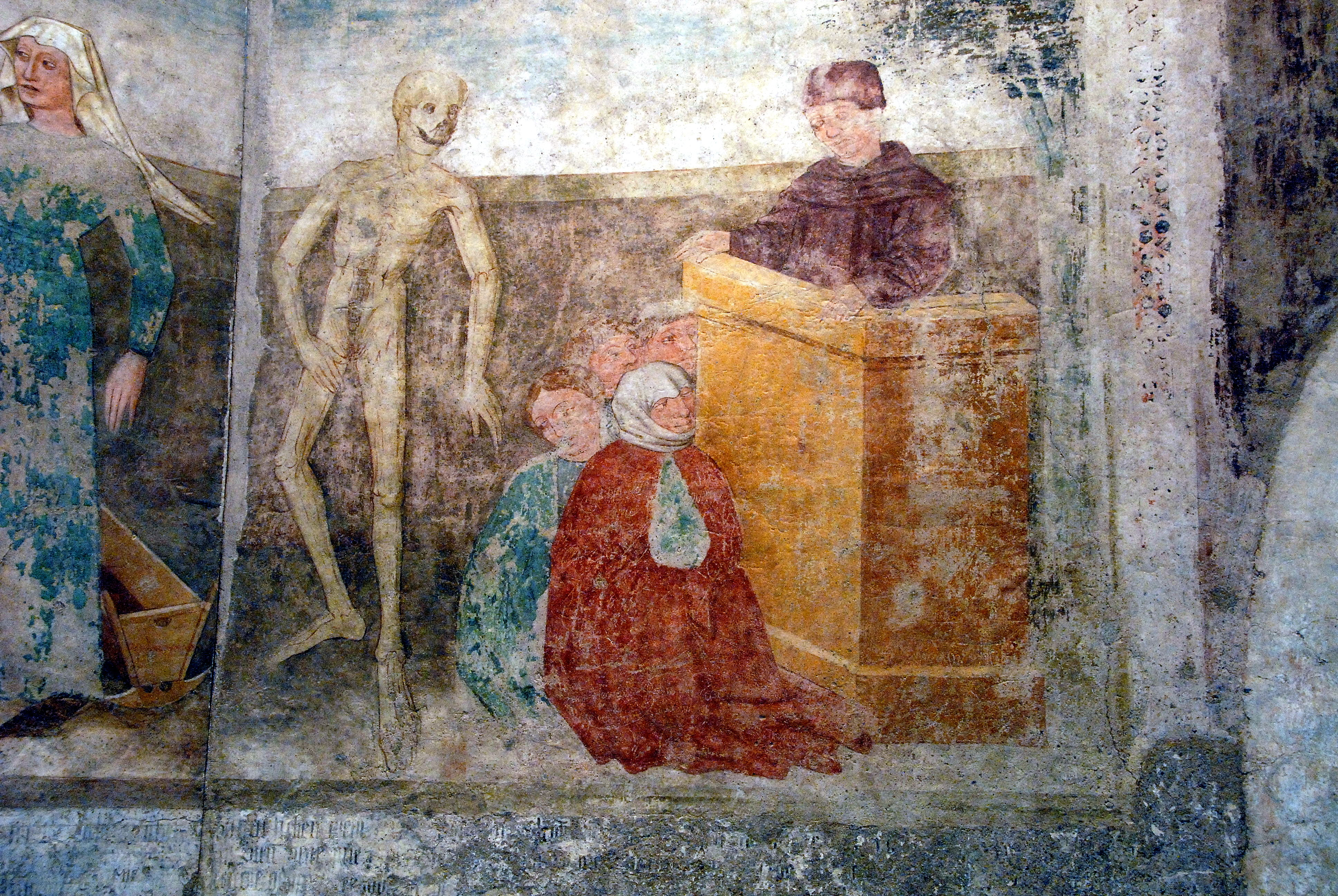 Sector of the original death dance frescos exposed in the death dance museum at Metnitz, community Metnitz, district Sankt Veit an der Glan, Carinthia, Austria